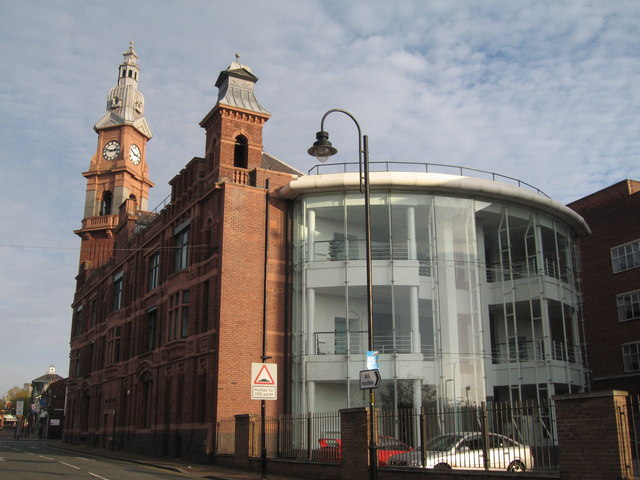 Beecham's Patented Pills An important St Helens company was the world famous Beecham's Pills. Thomas Beecham, born in Oxfordshire in 1820, began selling his pills and cures as a travelling salesman in the 1840s. Moving first to Liverpool and then Wigan, Thomas bought property in Westfield Street St Helen's in order to build a factory which cost around £30,000 and opened in 1877. The factory and its clock tower became a landmark on the St Helens skyline. The building has many intricate terracotta carvings around the exterior, including the face of its founder above the door! The factory closed in 1998 and has now become part of St Helens College.